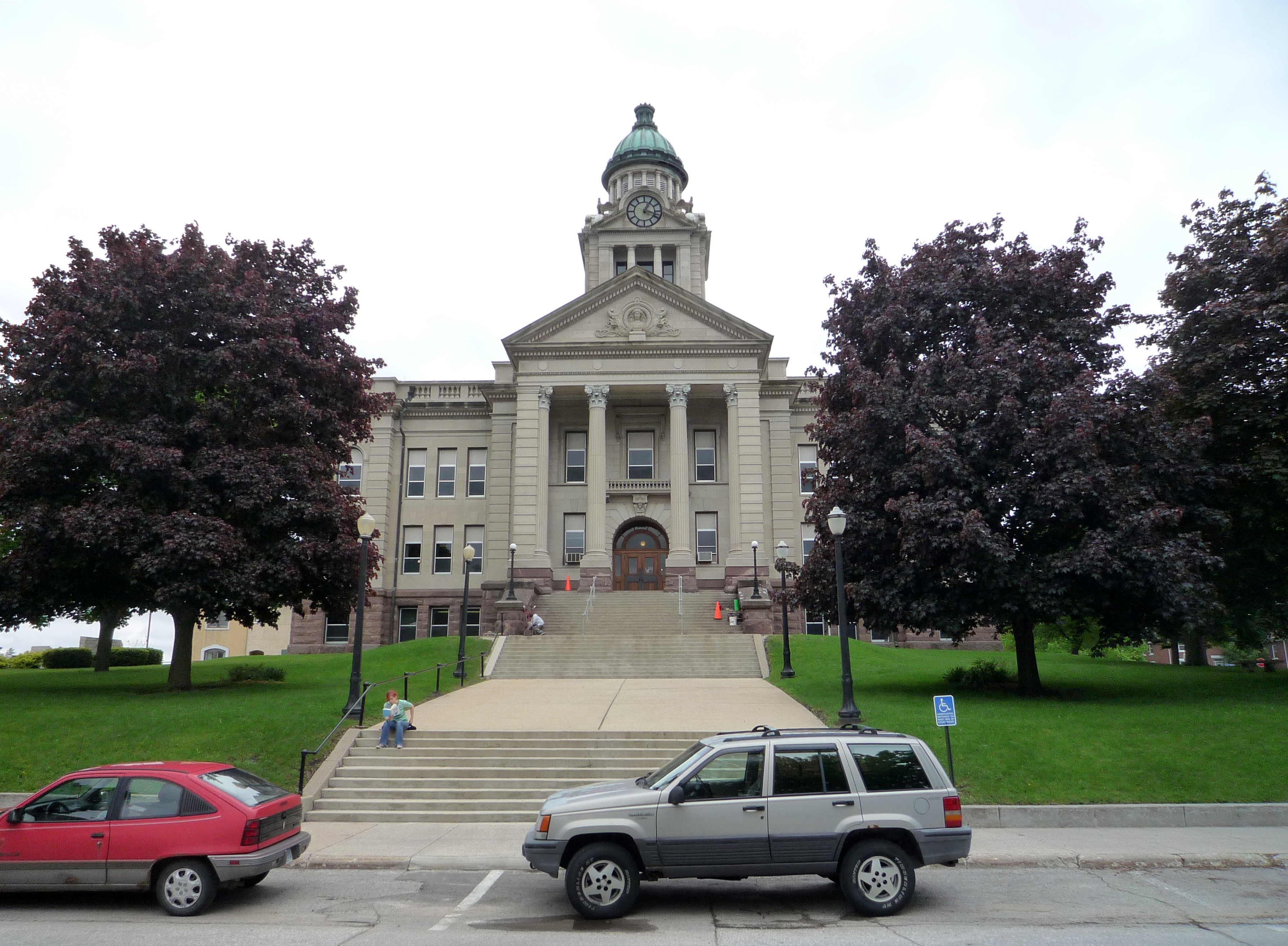 Winneshiek County Courthouse, Decorah, Iowa, USA. The offices for the supervisors and county officers of Winneshiek County are located in the building.